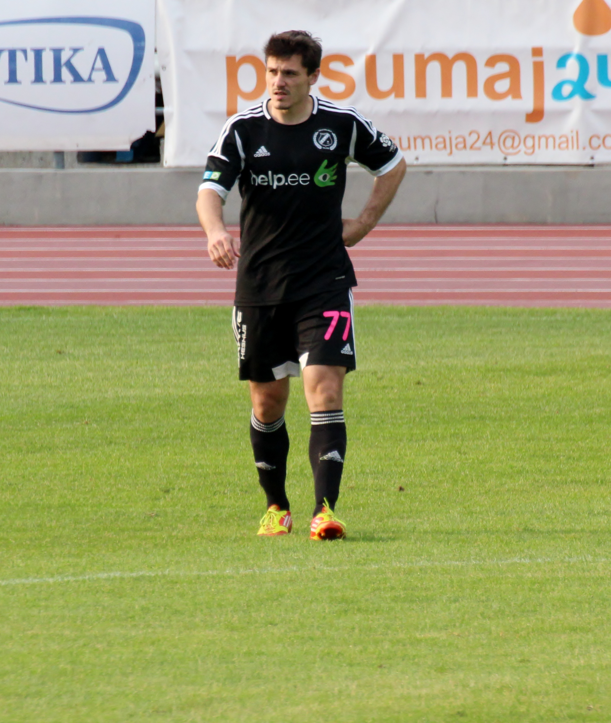 Footballer Tihhon Šišov playing for JK Nõmme Kalju.